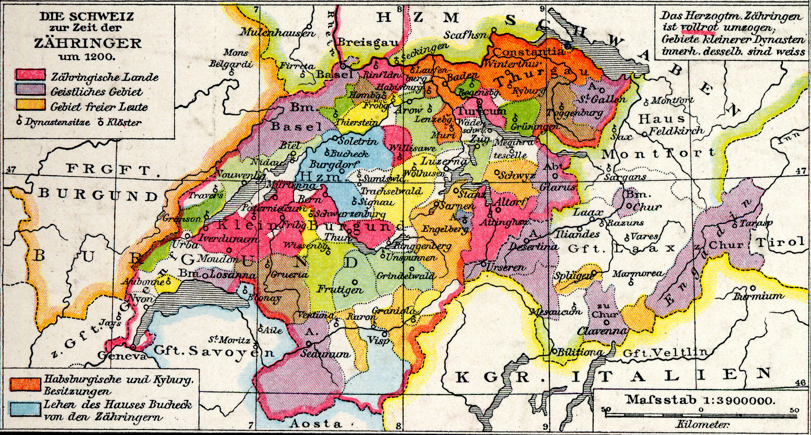 Switzerland at the time of the Zährings, around 1200.